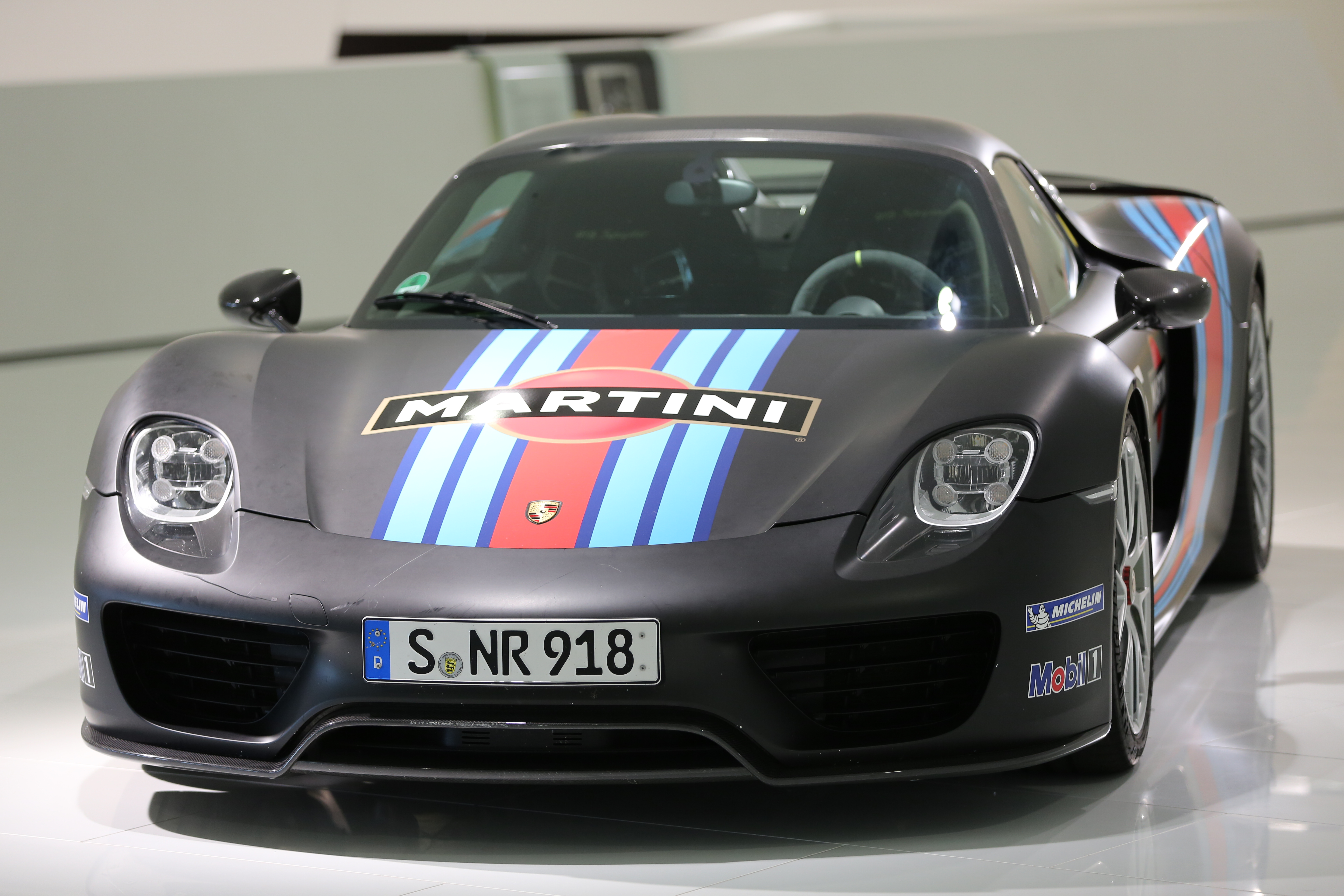 Porsche 918 On display at Porsche Museum, Stuttgart, Germany